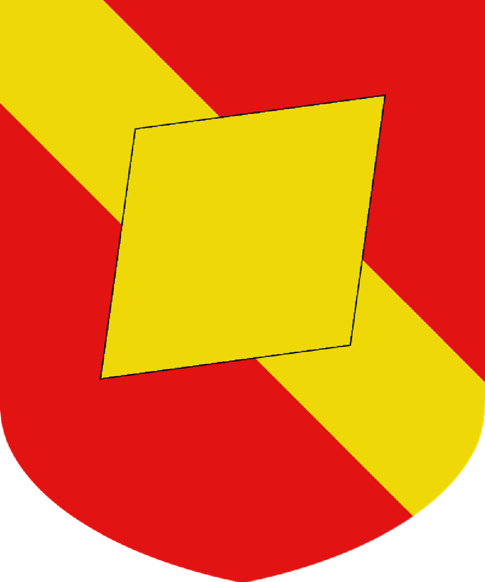 Briosi shield